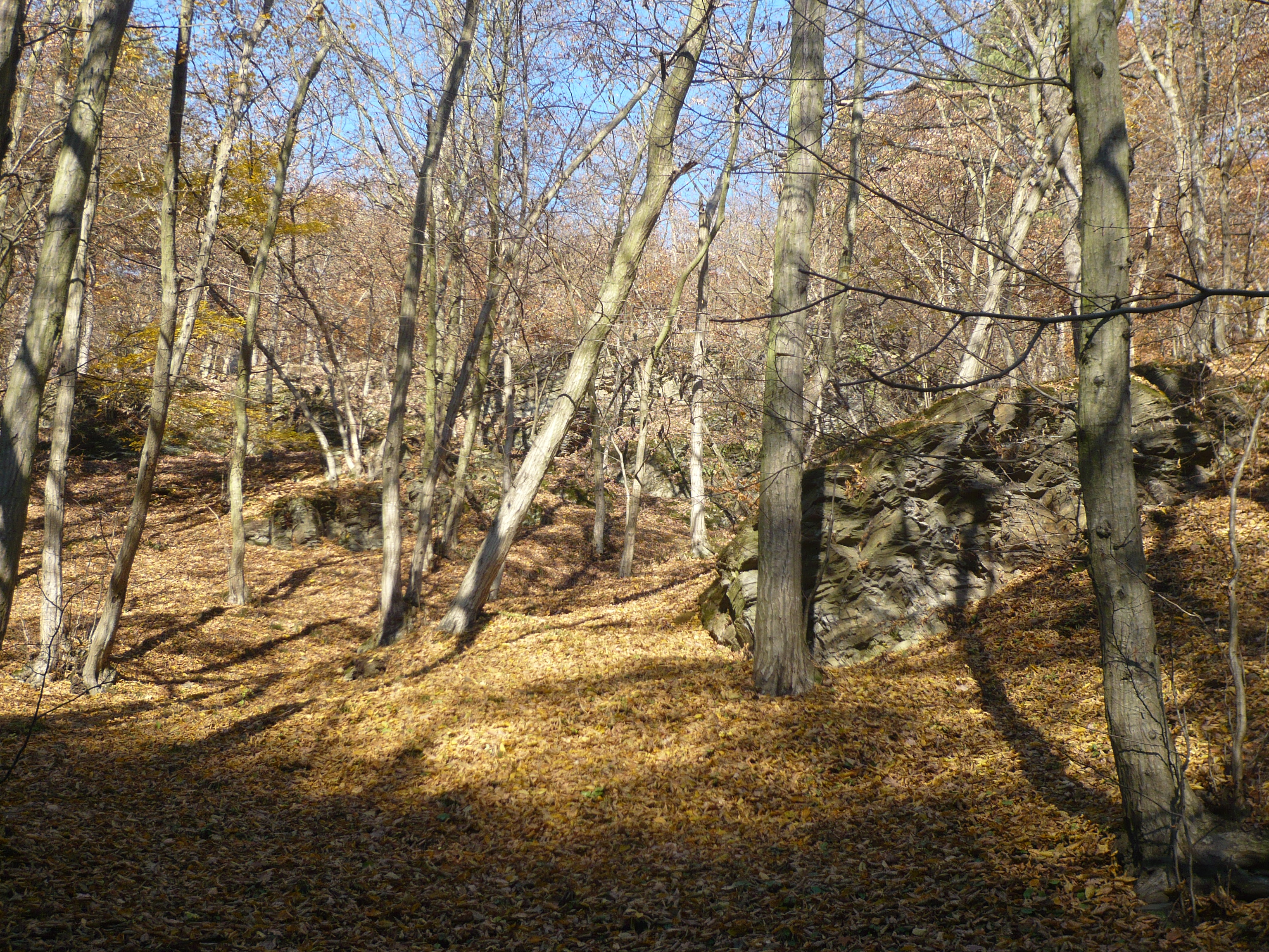 Skalní výstupy ve vyšších polohách.